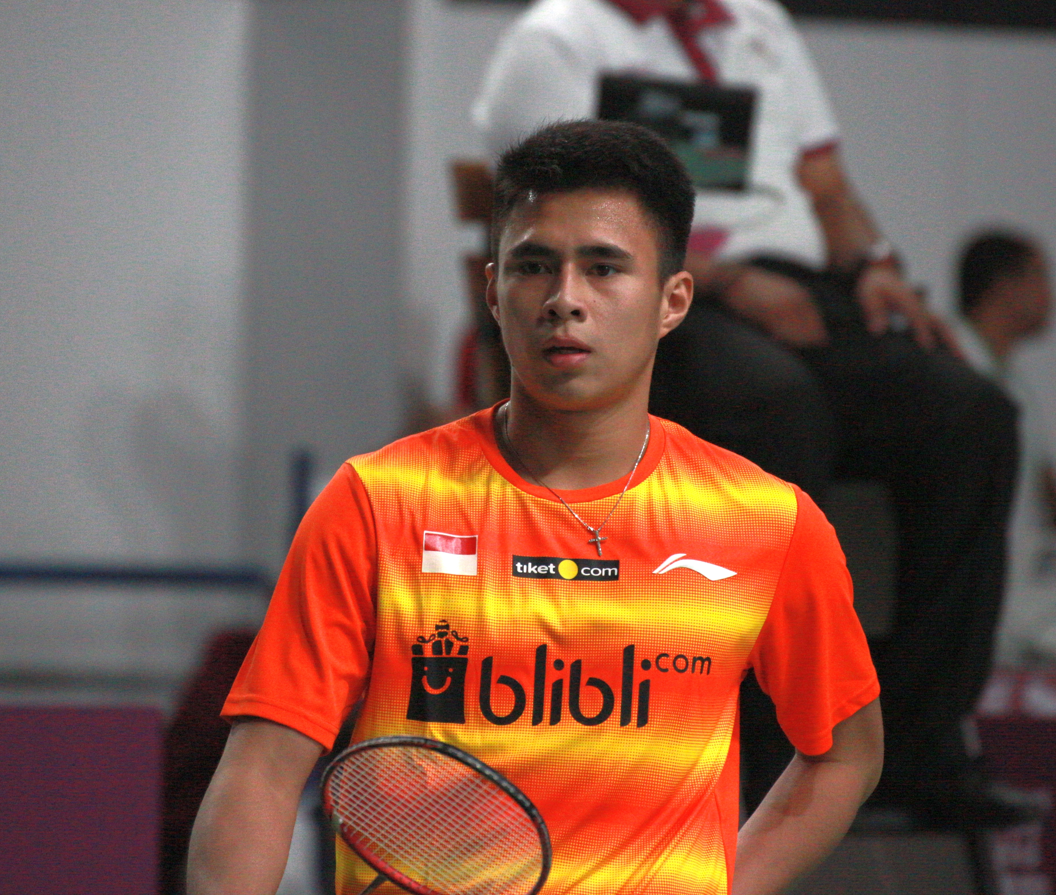 Badminton at the 2018 Summer Youth Olympics at 10 October 2018 – Boys Quarterfinal: Ikhsan Leonardo Imanuel Rumbay (Indonesia) - Lakshya Sen (India) 17-21, 19-21 48′